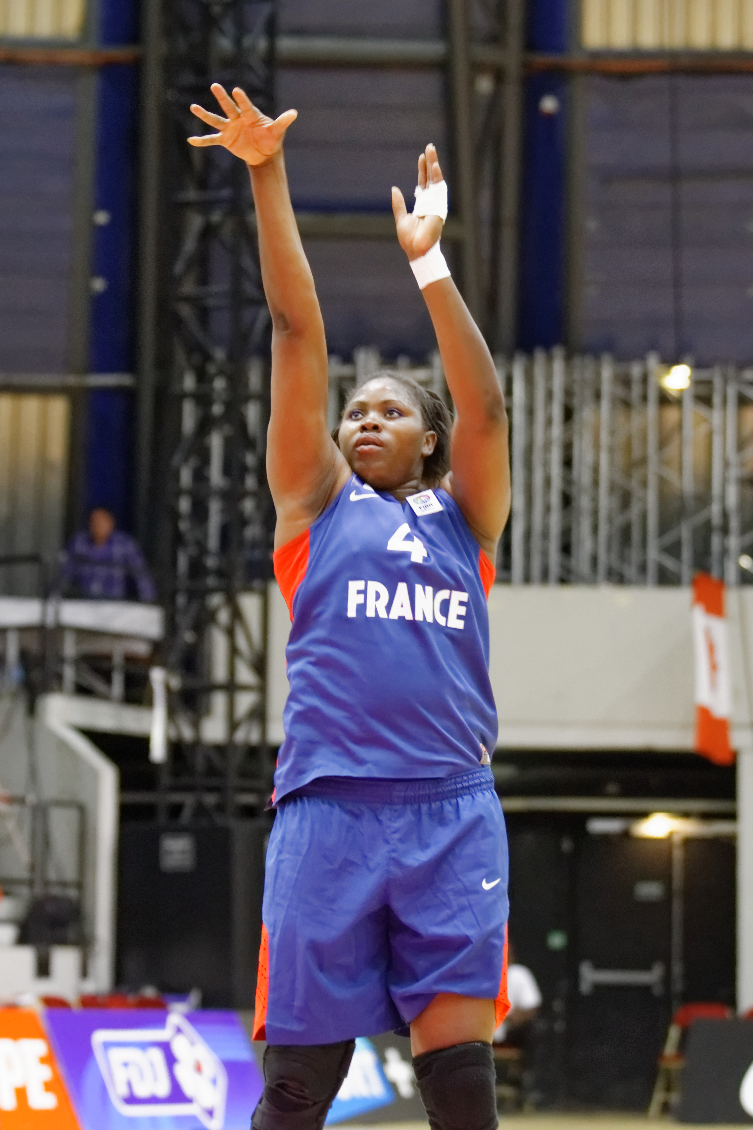 EuroEssonne, France - Canada, 7 June 2013.